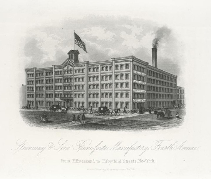 Steinway & Sons Piano-forte Manufactory, 4th Ave from 52nd str to 53rd str NYC. Steel engraving; Print